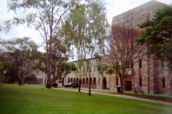 The Great Court, looking towards the Forgan Smith Building at the University of Queensland St Lucia campus ( this photograph was taken by Figaro )